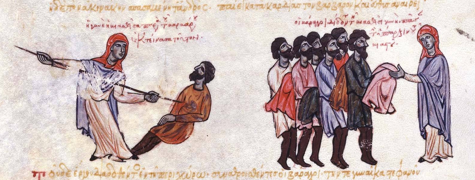 A Thracesian woman kills a Varangian, and his companions surrender his belongings to her